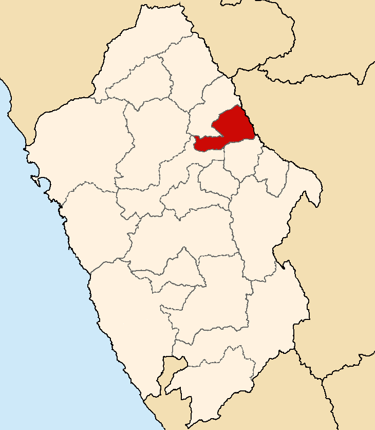 Location of the province Mariscal Lzuriaga in the Ancash region in Peru (Map)